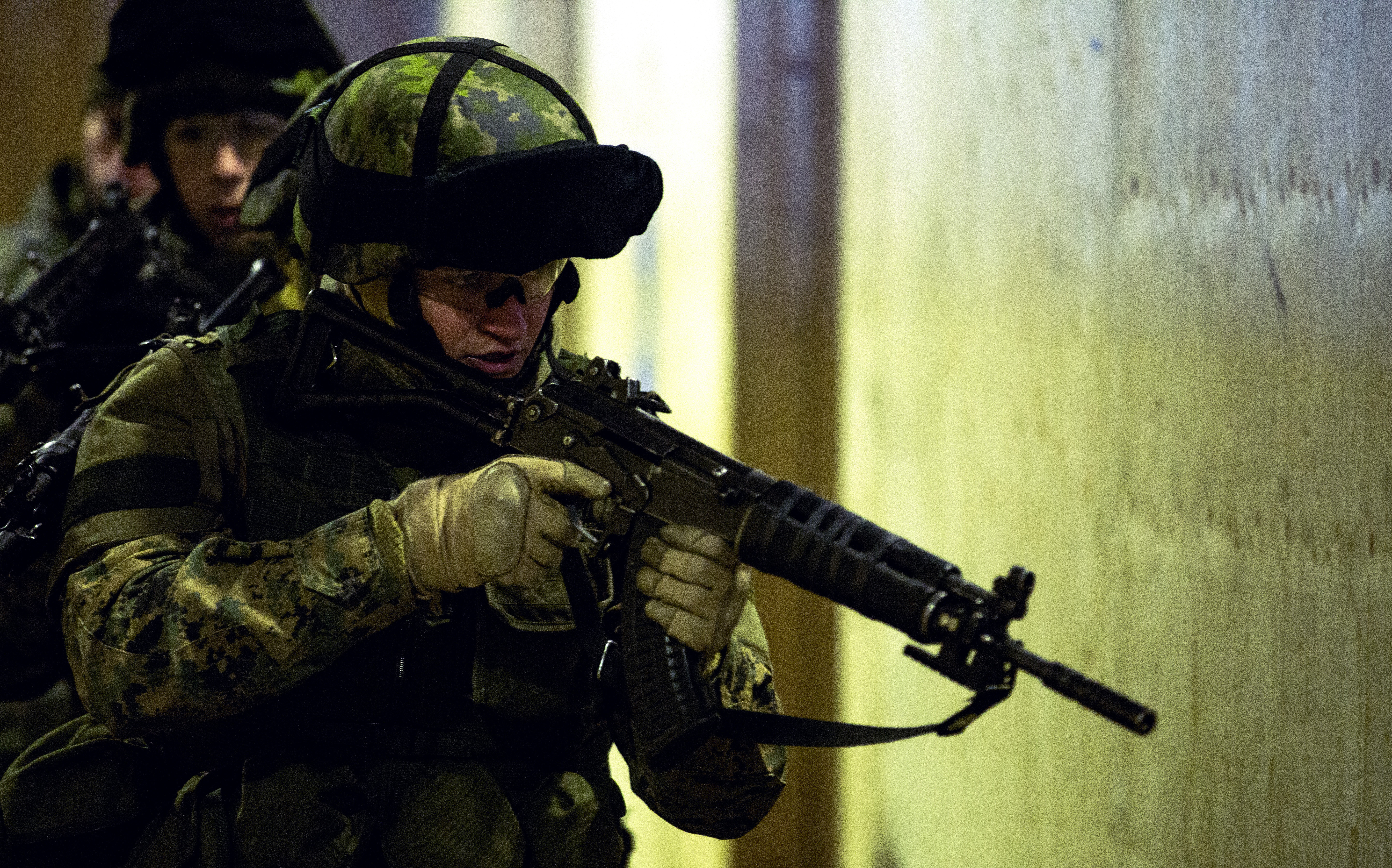 Staff Sergeant Bobby Neal, a platoon sergeant with Black Sea Rotational Force 14, practices room-clearing techniques in a Military Operations in Urban Terrain Instructor’s course, Jan. 15, 2014 in Helsinki, Finland. The two-week long course focused on tactical movement in an urban environment, room breaching and clearing, combat lifesaving and medical evacuations, detainee handling, and live-fire ranges. The training and partnership between the U.S. and Finnish forces proved to be an integral part of BSRF-14’s mission of maintaining and further strengthening close-and-solid relationships while promoting regional stability and increasing interoperability with partner nations in the region.